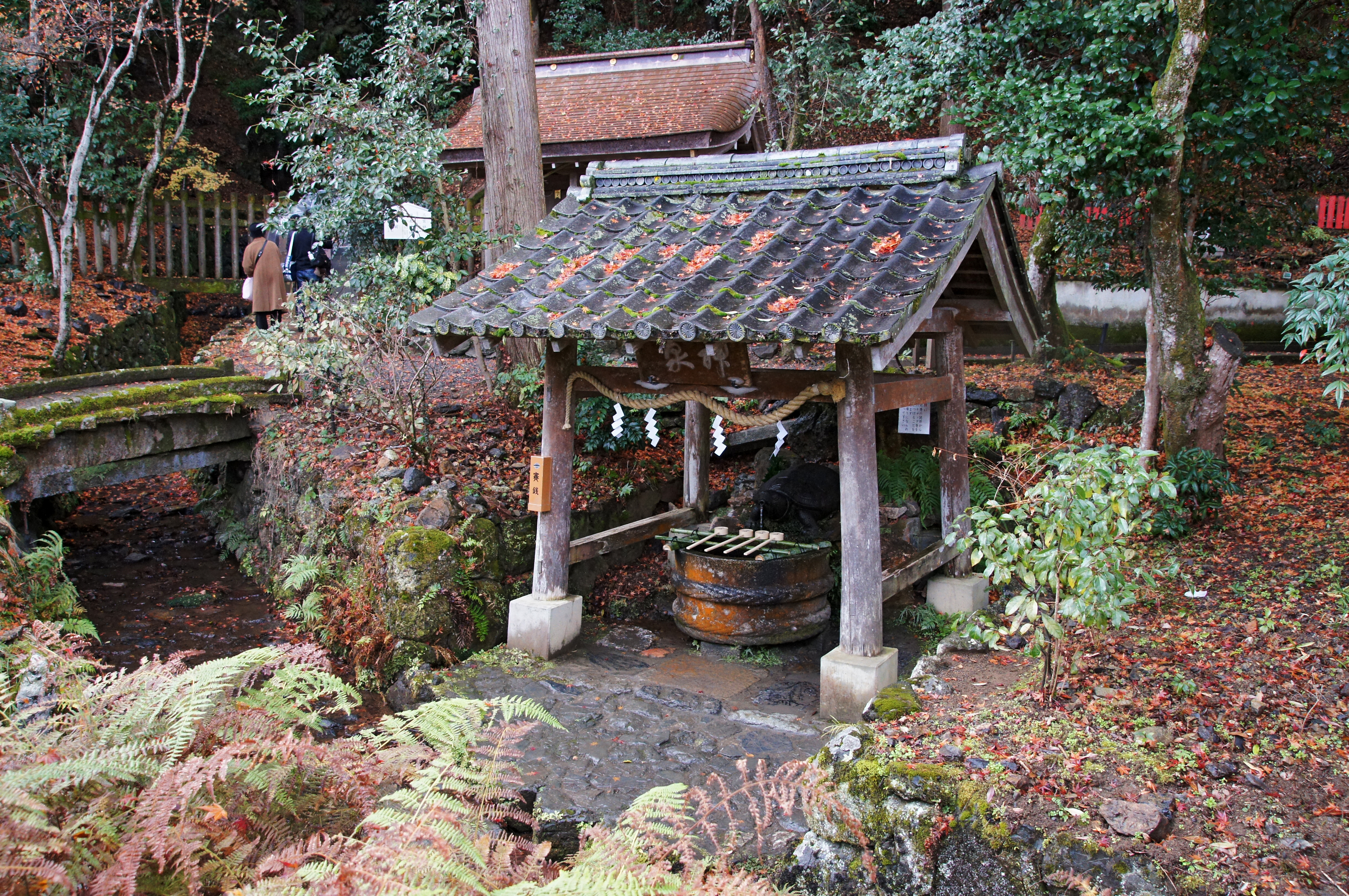 Matsunoo-taisha in Kyoto, Kyoto prefecture, Japan.